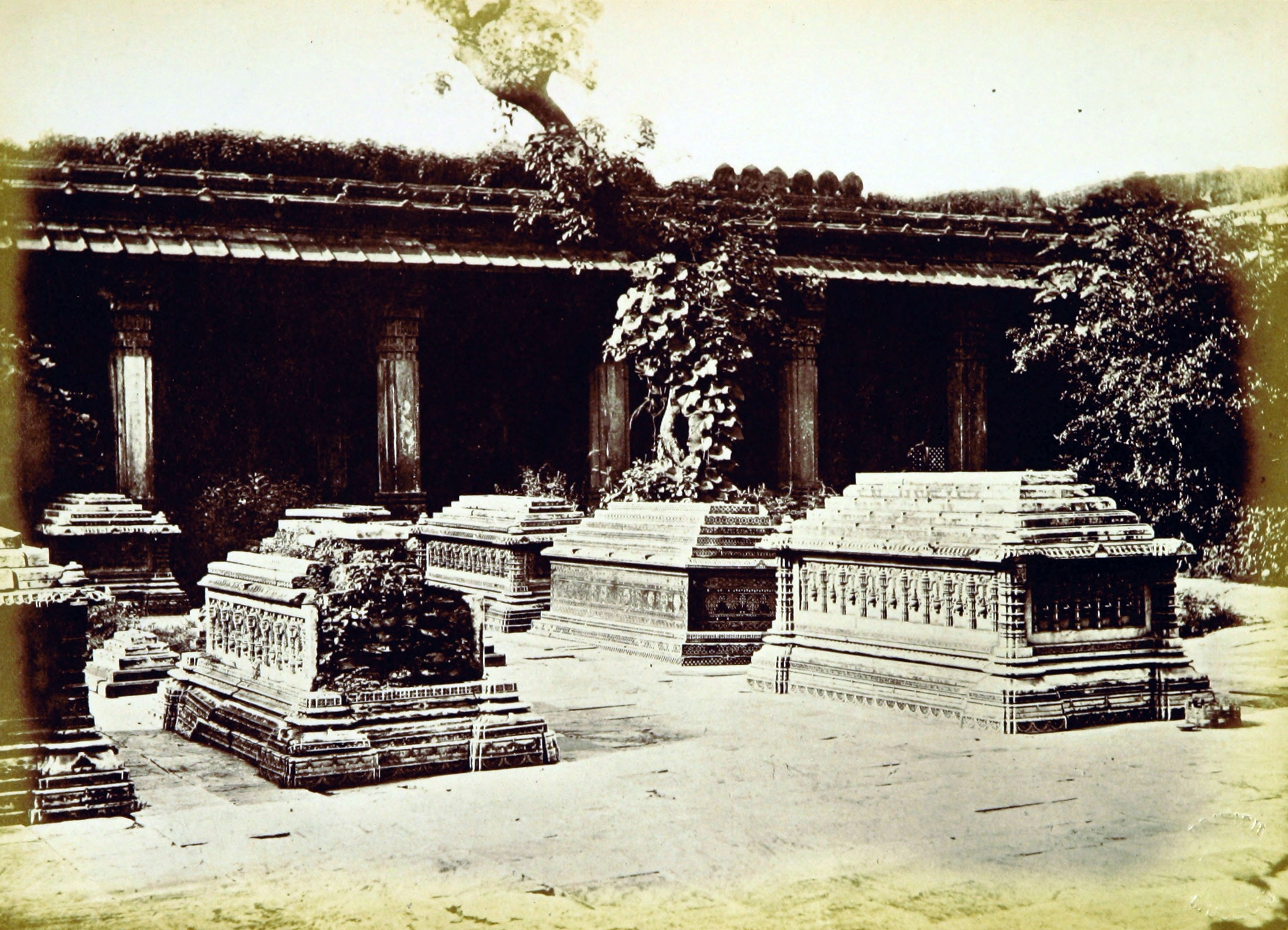 Image taken from: Title: "Architecture at Ahmedabad, the Capital of Goozerat, photographed by Colonel Biggs, ... With an historical and descriptive sketch, by T. C. H., ... and architectural notes by J. Fergusson, etc" Author: HOPE, Theodore Cracraft - Sir, K.C.S.I Contributor: BIGGS, Thomas. Contributor: FERGUSSON, James - Architect Shelfmark: "British Library HMNTS 10057.f.17.", "British Library OC V 6665" Page: 205 Place of Publishing: London Date of Publishing: 1866 Issuance: monographic Identifier: 001730119 Note: The colours, contrast and appearance of these illustrations are unlikely to be true to life. They are derived from scanned images that have been enhanced for machine interpretation and have been altered from their originals. If you wish to purchase a high quality copy of the page that this image is drawn from, please order it here. Please note that you will need to enter details from the above list - such as the shelfmark, the page, the book's volume and so on - when filling out your order. Following this or the link above will take you to the British Library's integrated catalogue. You will be able to download a PDF of the book this image is taken from, as well as view the pages up close with the 'itemViewer'. Click on the 'related items' to search for the electronic version of this work. Click here to see all the illustrations in this book and click here to browse other illustrations published in books in the same year. Please click on the tags shown on the right-hand side for other ways to browse the illustrations.